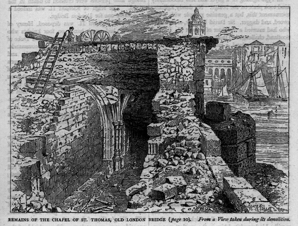 An engraving by Edward William Cooke showing the demolition of the Chapel Pier of Old London Bridge in 1832, exposing the 13th century Lower Chapel of St Thomas on the Bridge.